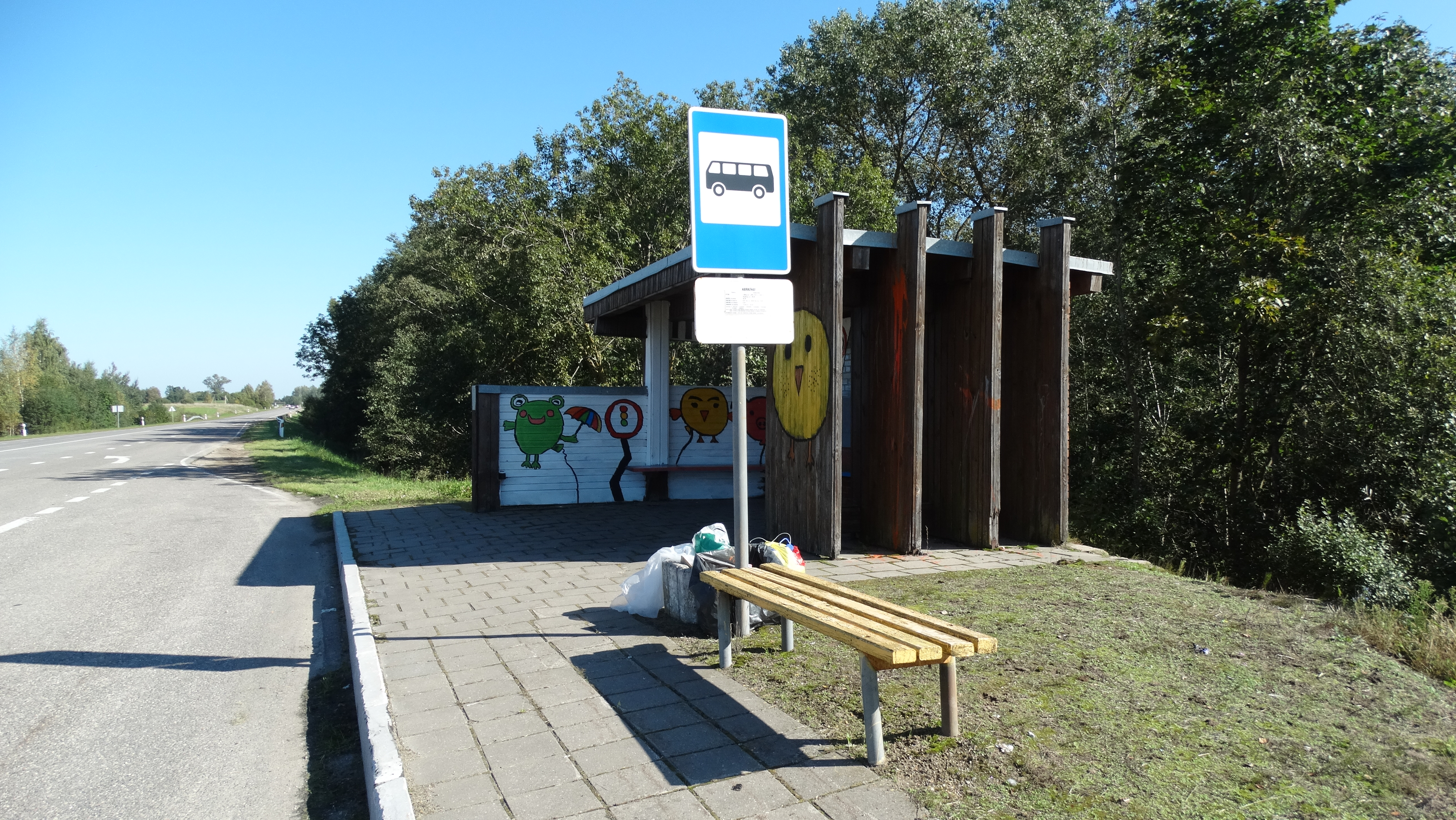 Narkūnai, Utena District, Lithuania